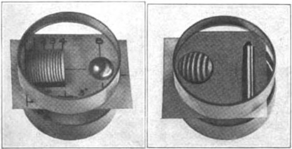 Two photos of the use of optical flats to measure the thickness of metal parts within millionths of an inch using interferometry, from a 1921 magazine article. In each photo two optical flats are used, with the top flat resting on a precision gage block on the left and the object to be measured on the right. In the left hand photo a ball bearing is being measured, in the right a cylindrical steel plug gage. If the object to be measured is the same height as the gage block, the upper optical flat will rest flat against the surface of the block and no interference fringes will be seen. However, if the object is a different height, the top flat will rest at a slight angle, and there will be a tiny wedge-shaped gap between the upper flat and the gage block surface. The light waves reflecting from the two surfaces interfere, creating a pattern of bright and dark "interference fringes" (also called Newton's rings). The surface is illuminated by a monochromatic light source with a precisely known wavelength. Each interference fringe represents a difference in height from the previous fringe of one-half the wavelength, so the difference in height can be measured by counting the interference fringes. In this example, red selenium light with a wavelength of 25 microinches (μin) is used, so each band represents a difference in height of 12.5 μin. The ball bearing in the left photo is in error by 140 μin, while the plug gage is in error by 60 μin. The optical flat itself is flat within 2.5 μin.